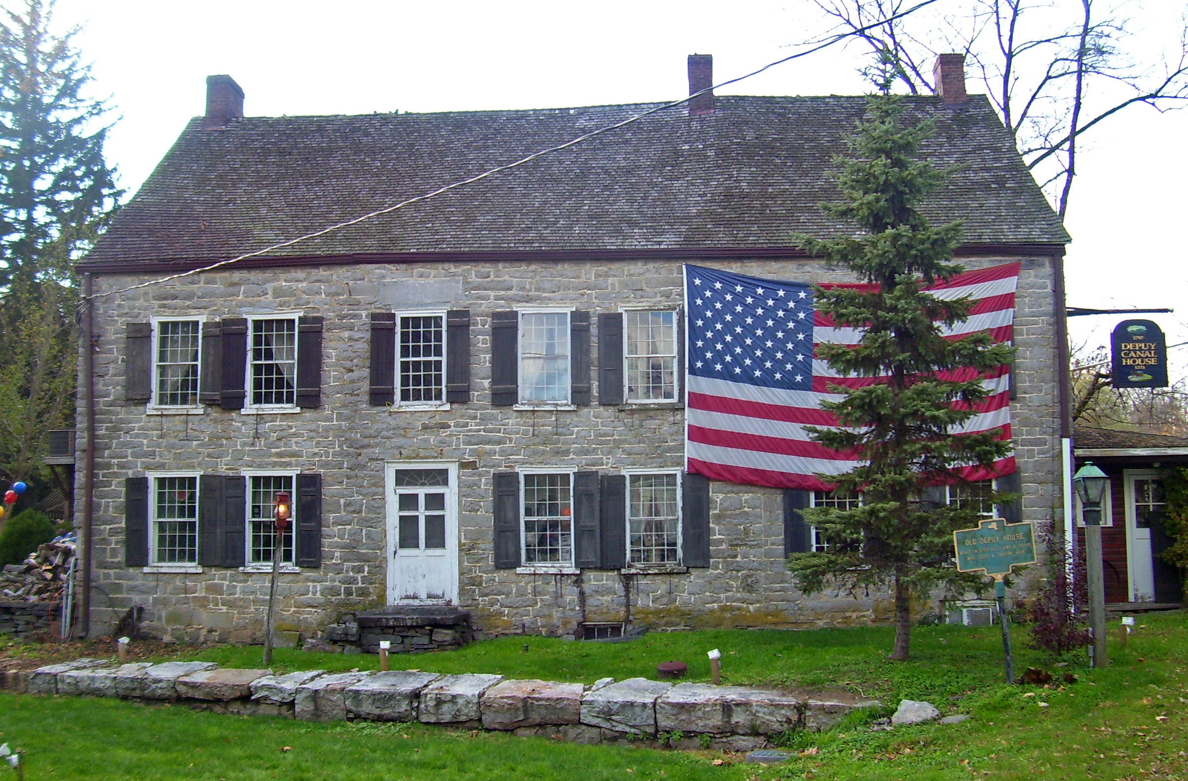 1797 Jacob DePuy Stone House in High Falls, NY, USA, a contributing property to both the Delaware and Hudson Canal National Historic Landmark District and the High Falls Historic District